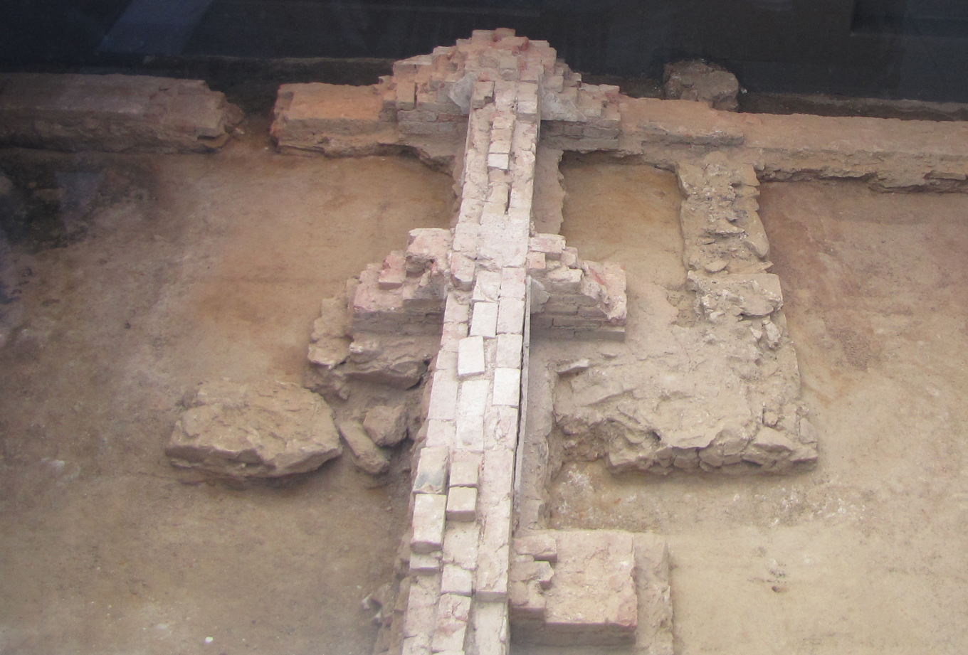 Foundations at the President's House site, Independence Park, Philadelphia, Pennsylvania.